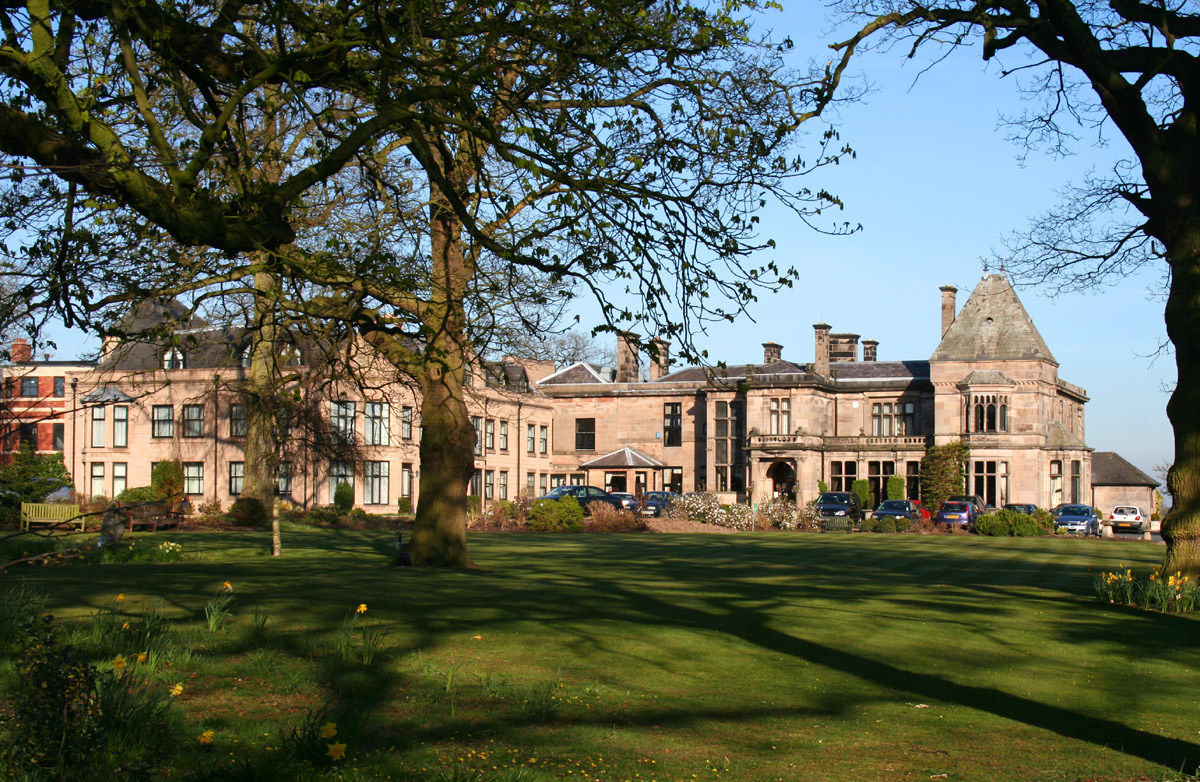 Rookery Hall, Worleston, near Nantwich, Cheshire